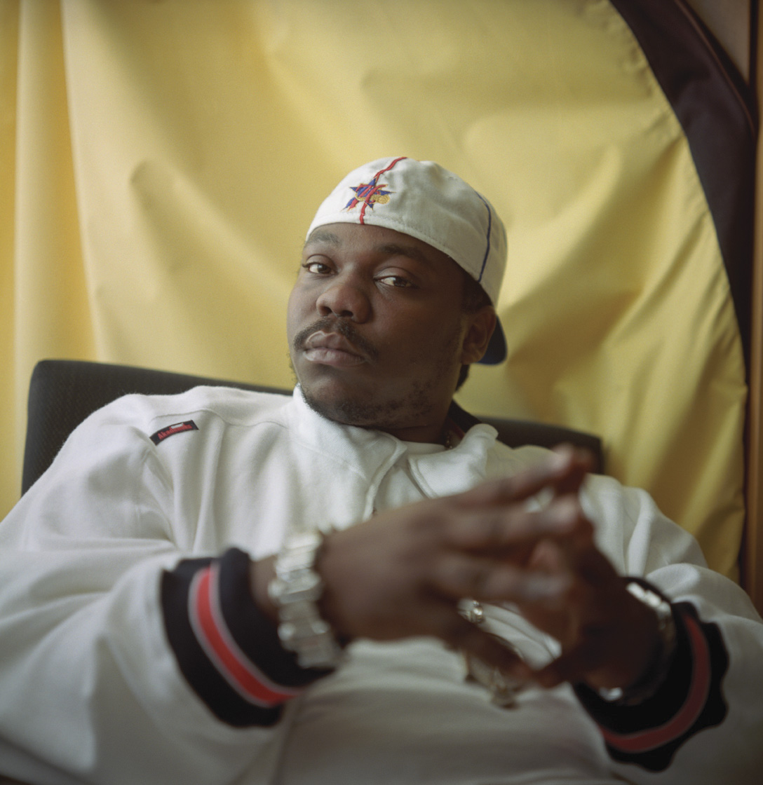 in Cologne /Germany